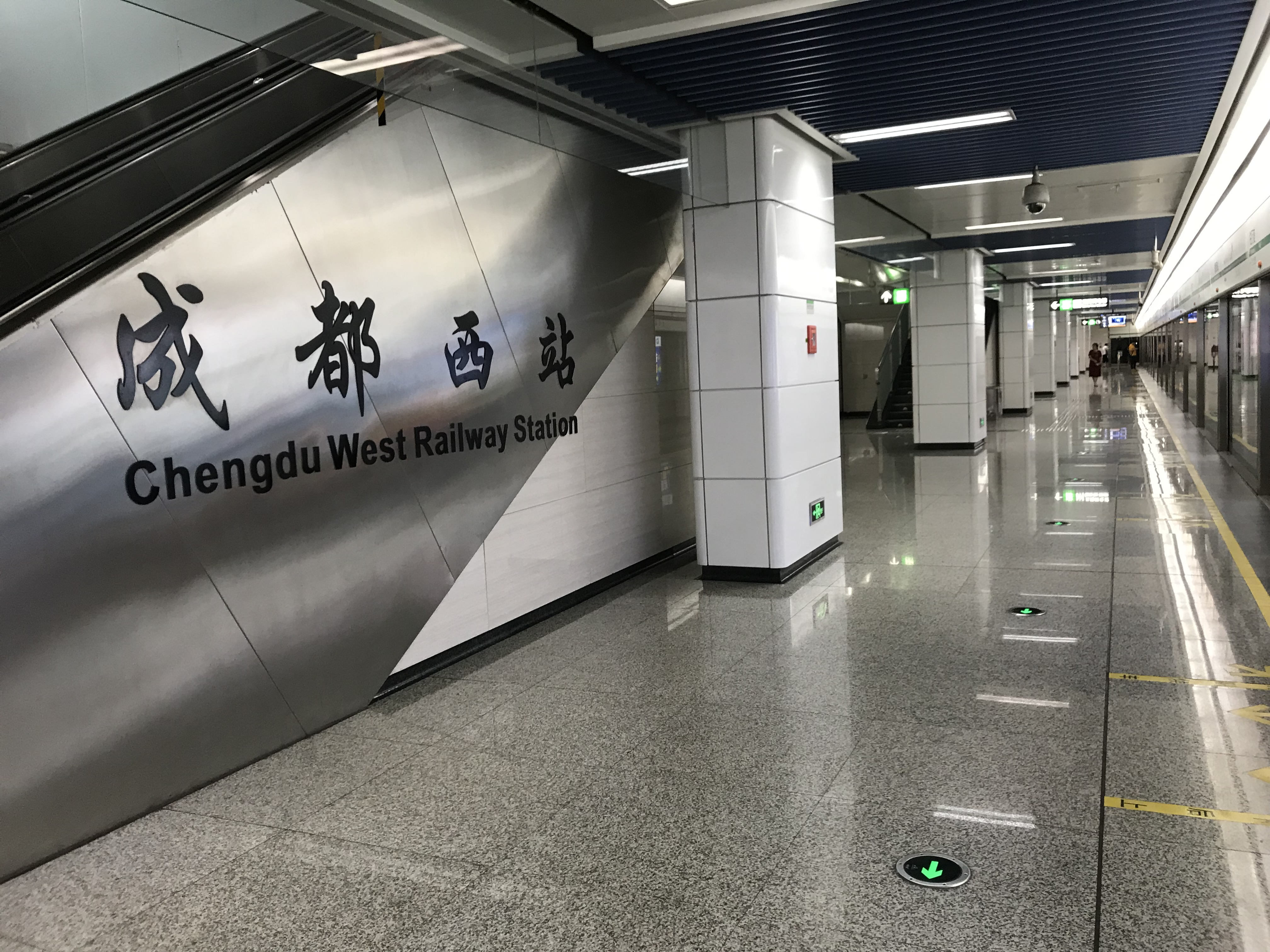 201908 Nameboard of Metro Chengdu West Railway Station